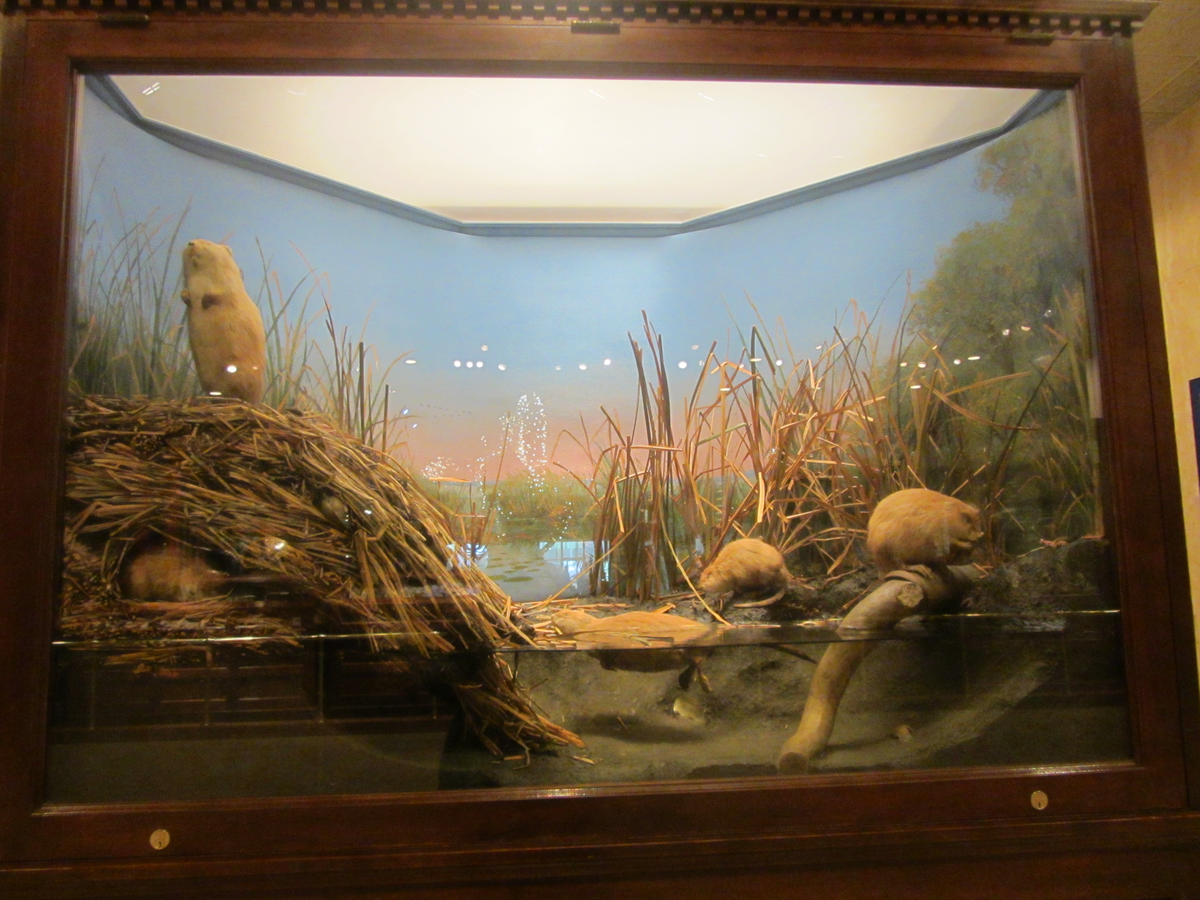 This Muskrat Group diorama, prepared in 1890 by Carl Akeley, is the first habitat diorama in America.